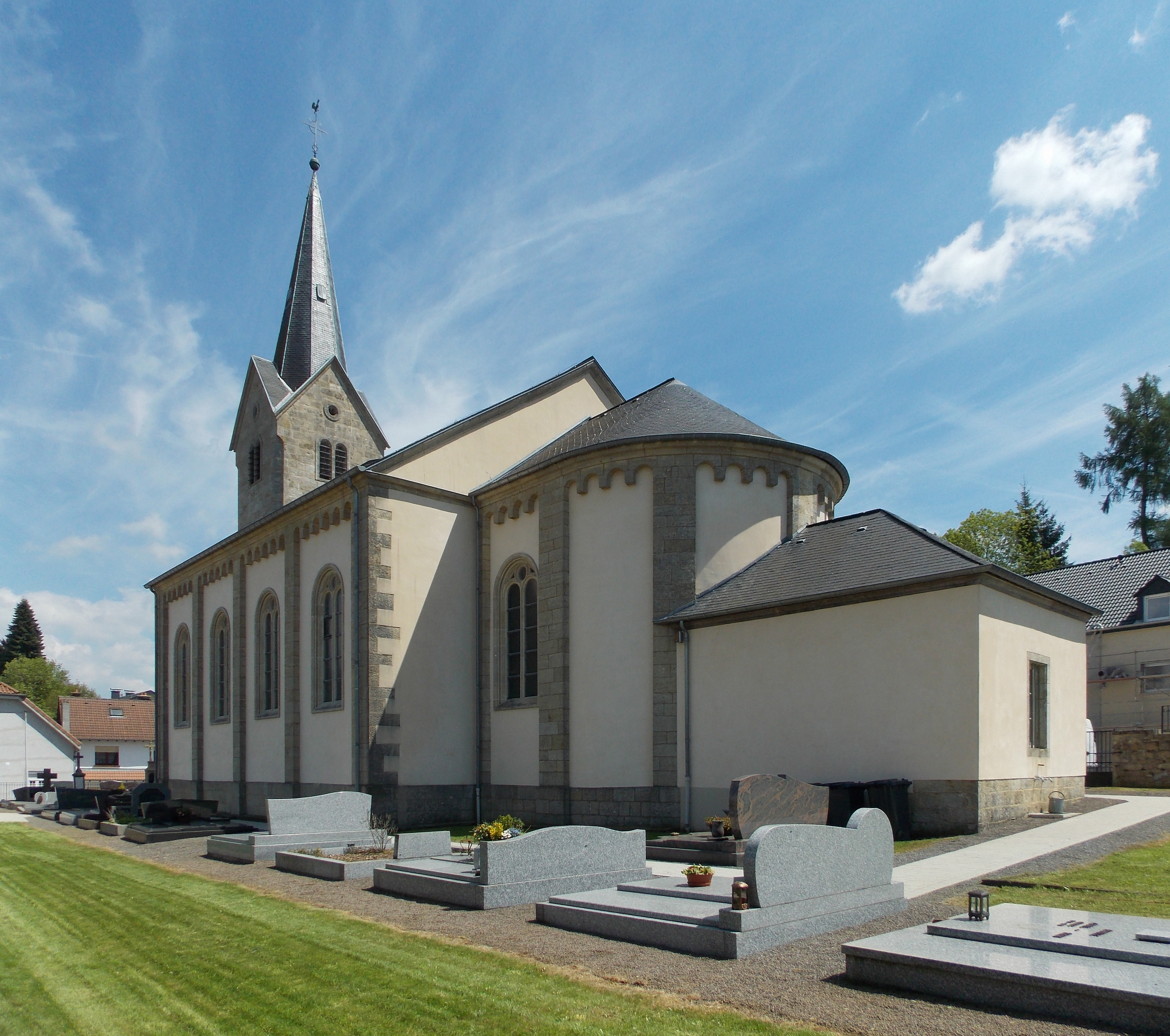 St. Mathias Church in Fingig, as seen from the northwest